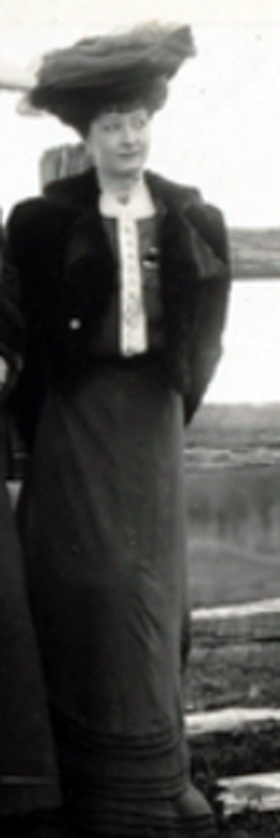 Florence Hay (nee Burdekin) wife of Alexander Hay of Coolangatta Estate on the Shoalhaven River NSW